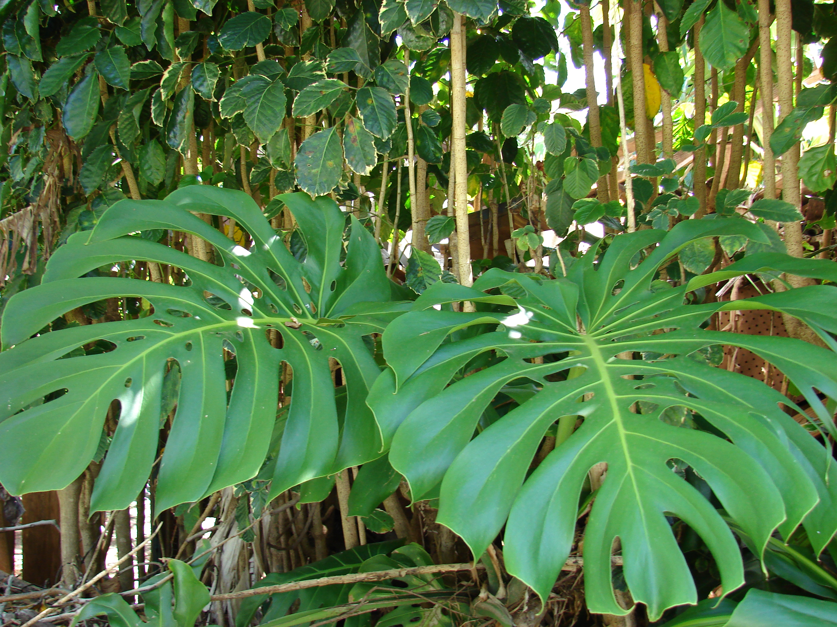 Monstera deliciosa (leaves). Location: Maui, makawao